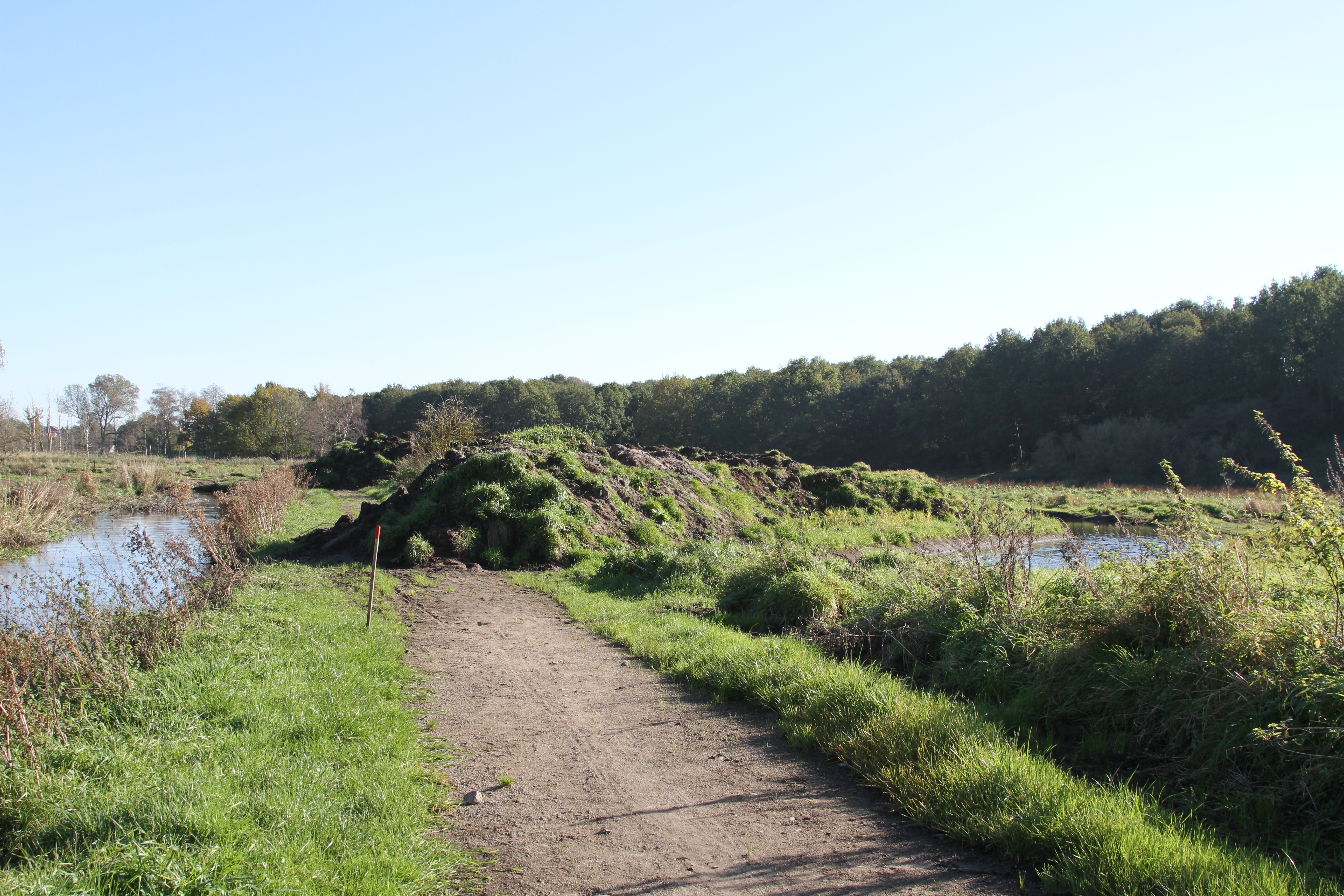 Stavids/Stavis River in Odense, Denmark, on an autumn day while it was being "re-winded".